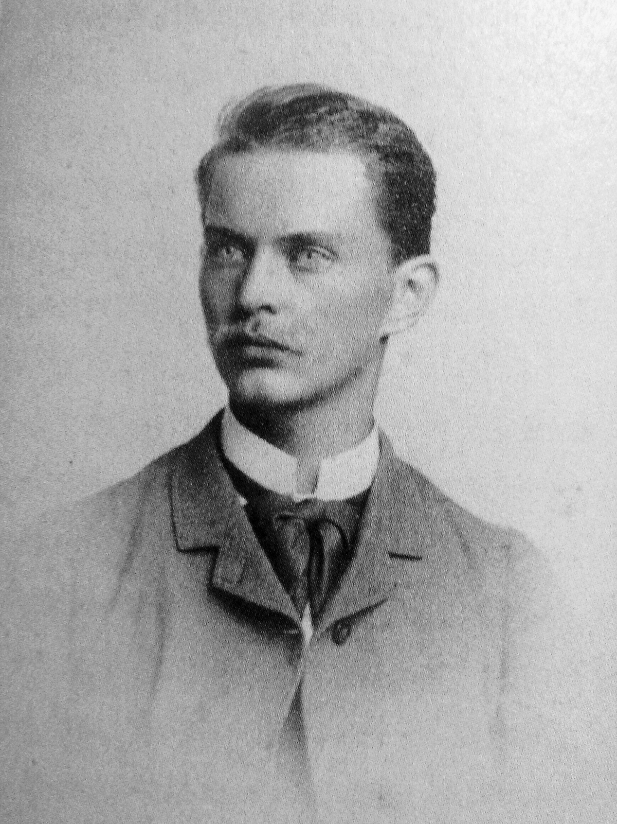 Louis Baur (1858-1915), swiss merchant and commercial agent.